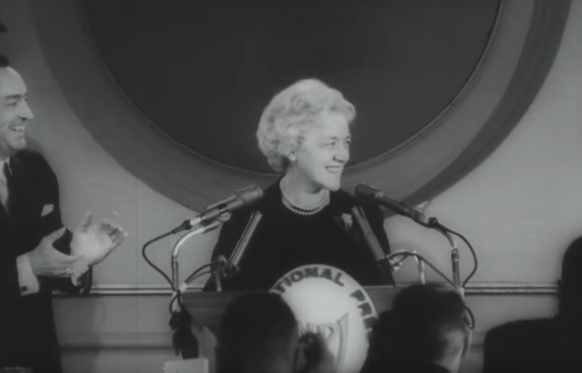 Margaret Chase Smith, Republican Senator from Maine, announcing that she will enter the New Hampshire primary and seek the nomination for the Presidency.